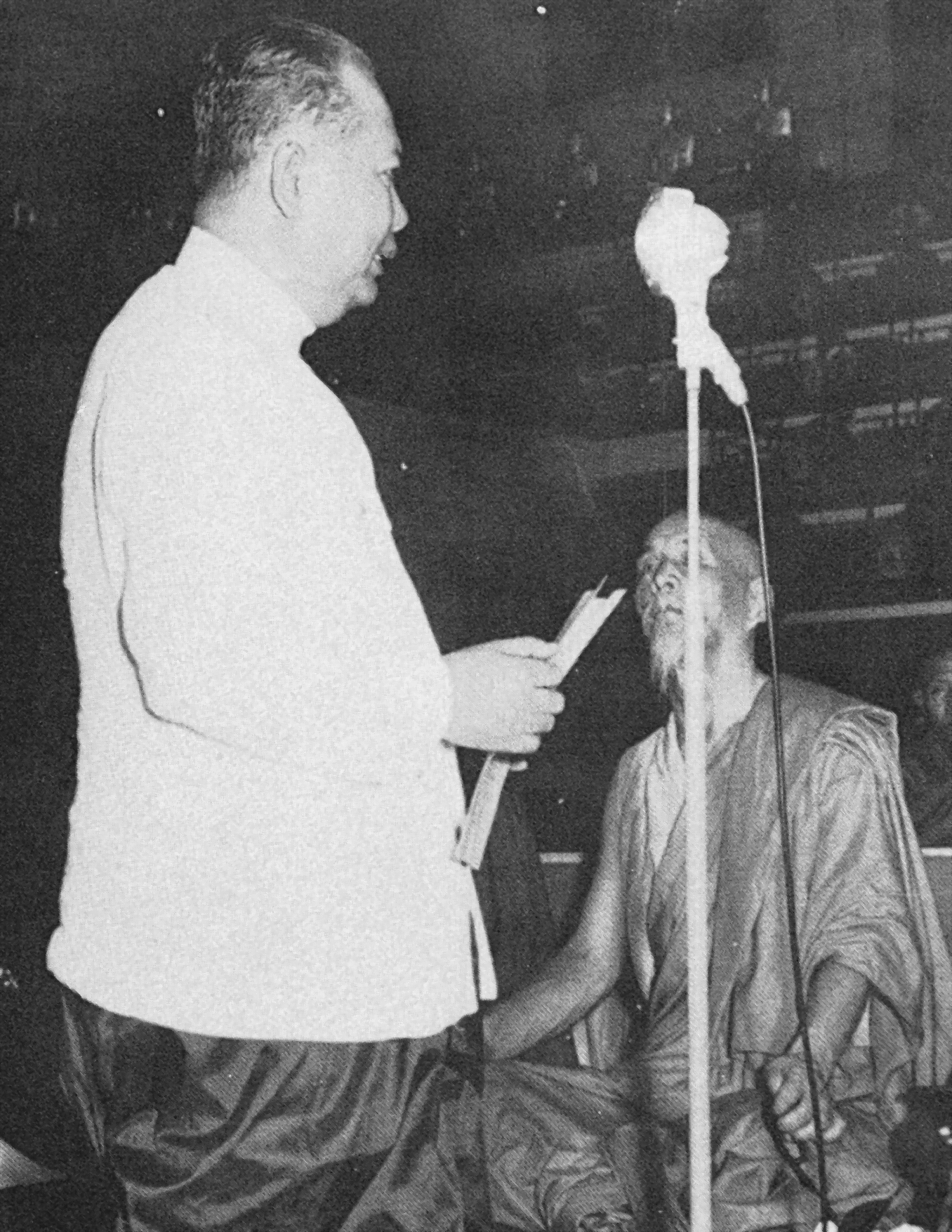 Leng Nghet, prime minister of Cambodia reads a speech on behalf of his king at the opening of the Laos-Cambodia session of the Buddhist Council (Chaṭṭa Sangāyanā), 1955-04-28.